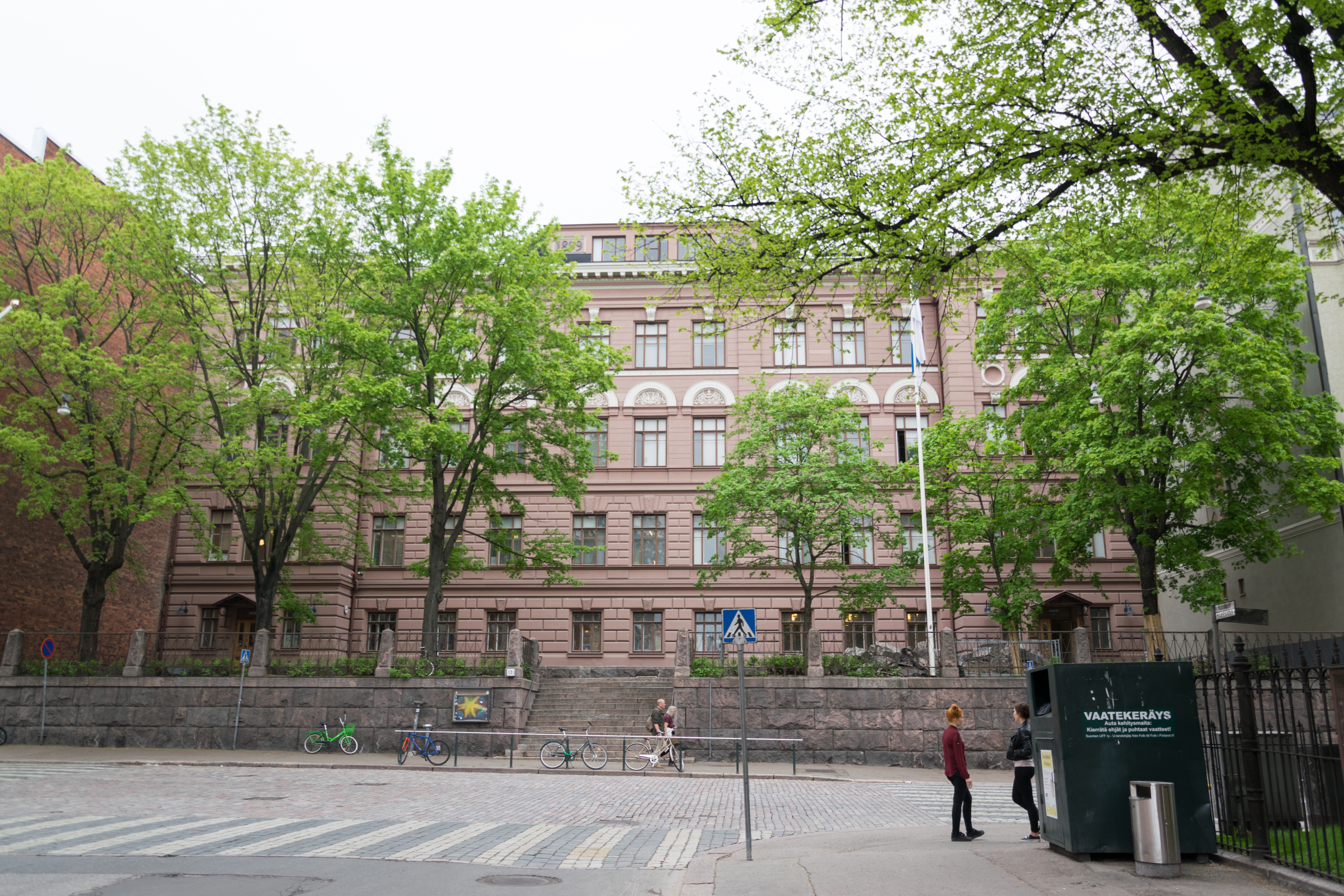 The Sibelius Upper Secondary School in Helsinki, Finland